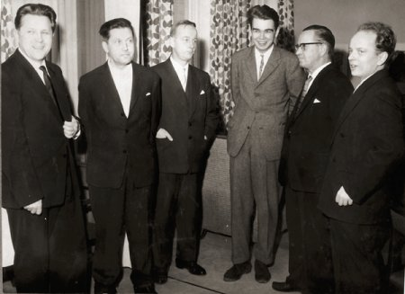 Finnish writers in Kuopio. From left to right: Lauri Kokkonen, Jorma Korpela, Heimo Lampi, Pentti Saarikoski, Simo Puupponen, Veijo Meri